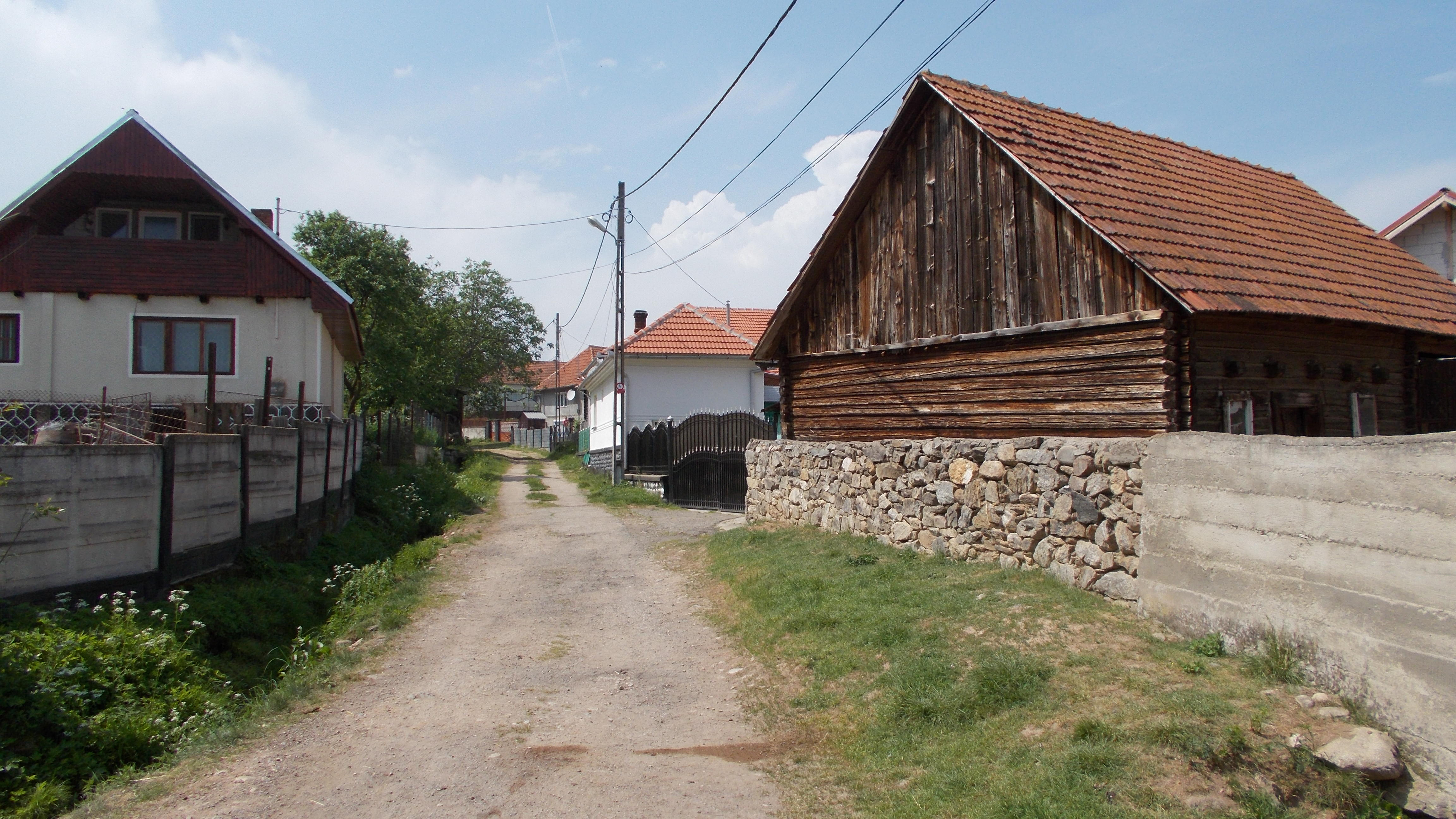 Clopotiva, Hunedoara County, Romania